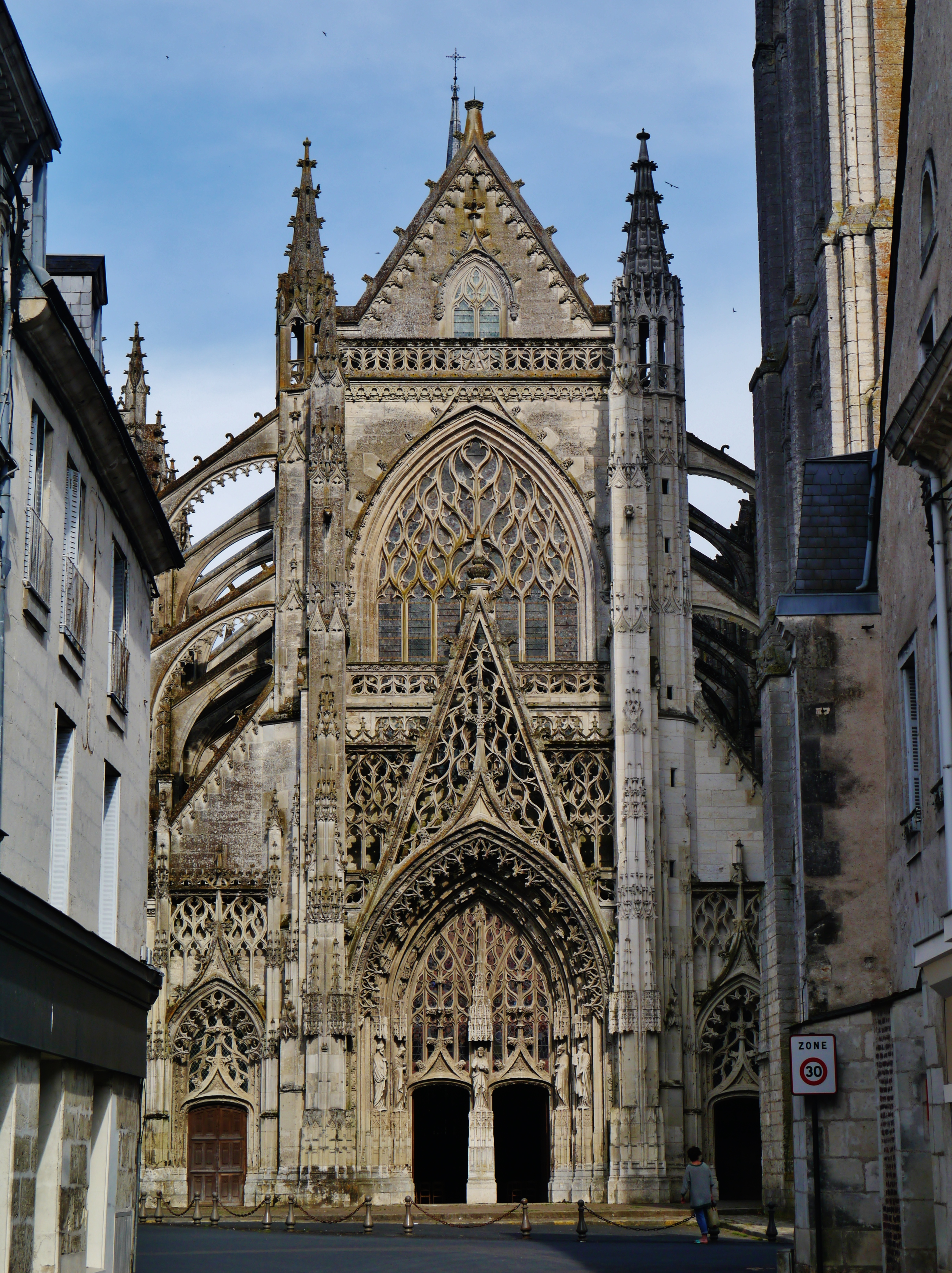 Facade of the Abbey Church of the Most Holy Trinity, Vendôme, Department of Loir-et-Cher, Region of Centre-Loire Valley, France